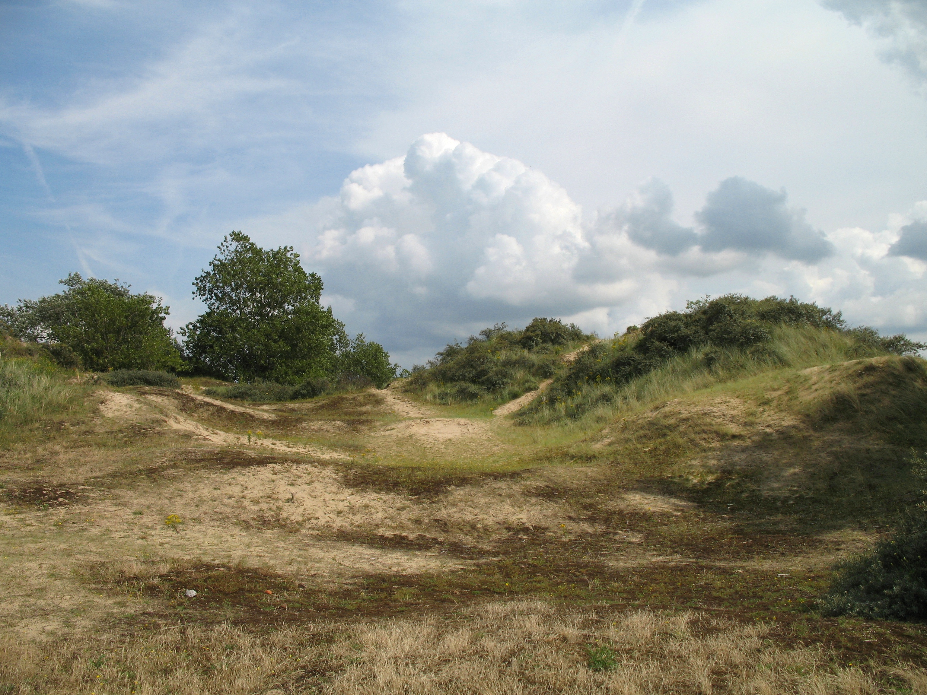 Koksijde (Province of West Flanders, Belgium): 'Hoge Blekker' dune